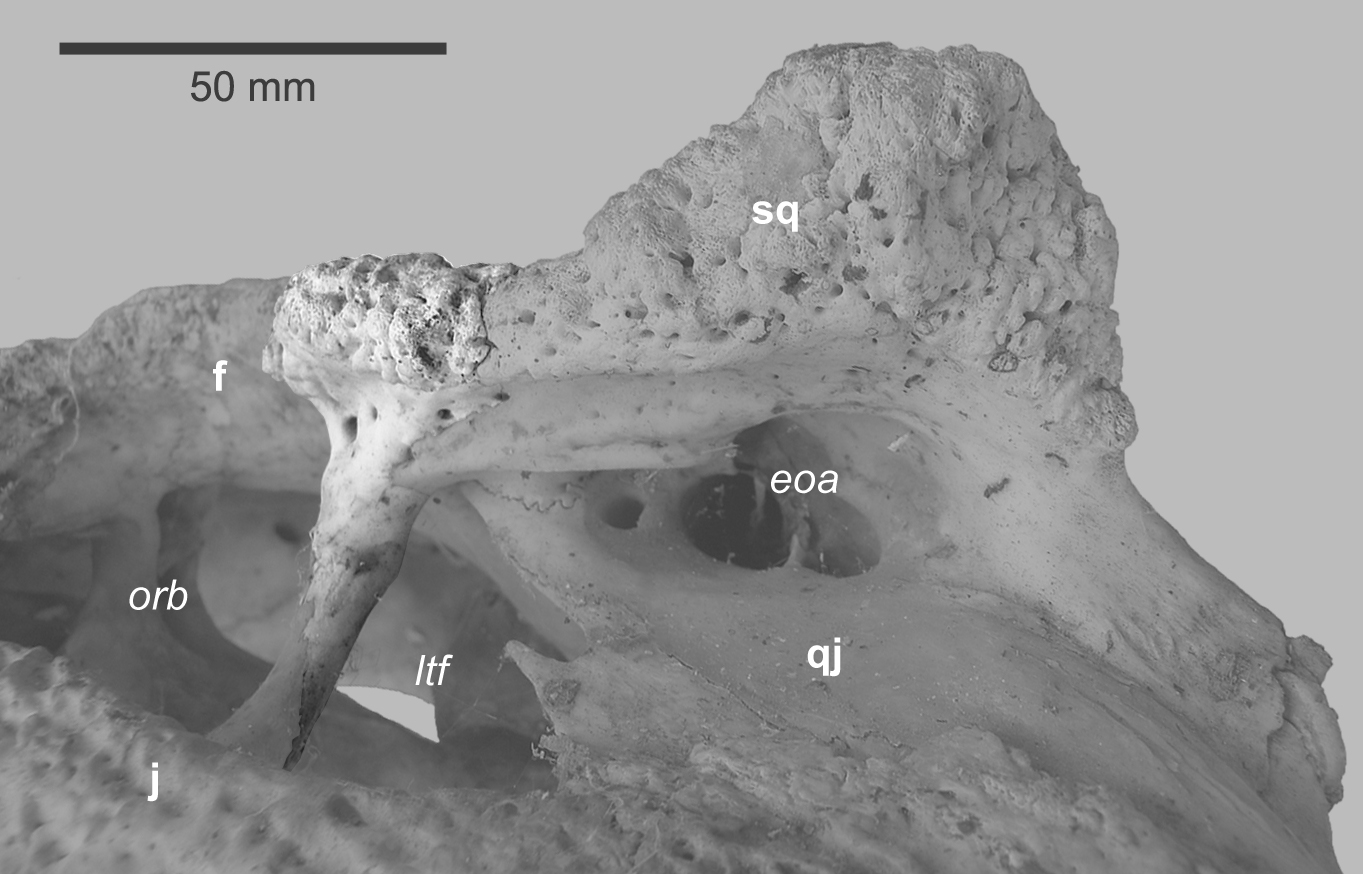 Posterior part of the skull of Crocodylus rhombifer in left lateral view with the postorbital bone highlighted. Abbreviations: eoa = external otic aperture; f = frontal; j = jugal; ltf = lower temporal fenestra; orb = orbit; qj = quadratojugal; sq = squamosal.